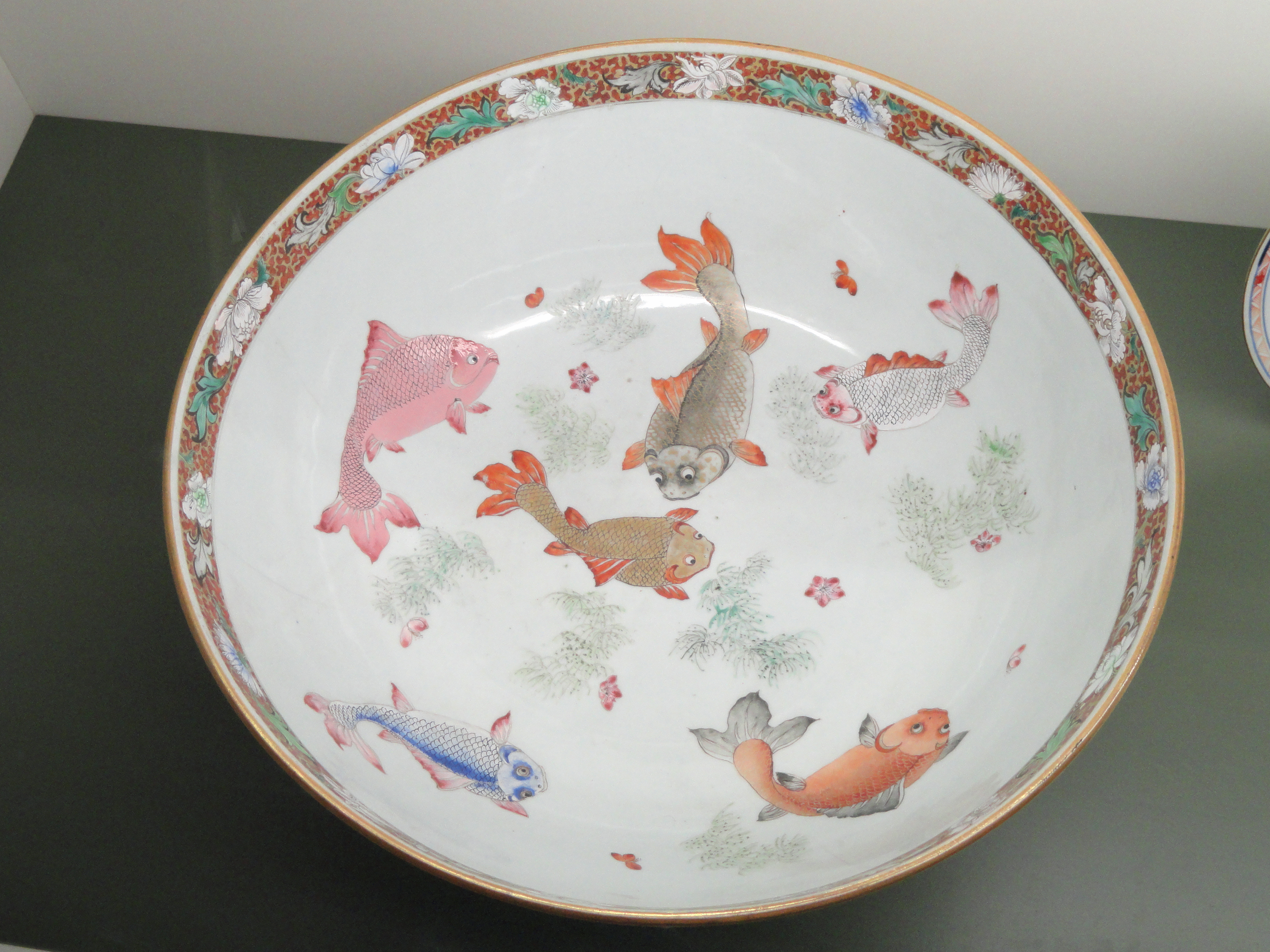 Chinese porcelain plate with goldfish, Yongzheng 雍正帝 era (1723-1735). Porcelain exhibited in the Münchner Residenz, Munich, Germany.